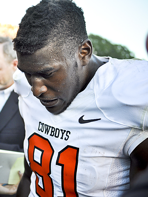 Justin Blackmon being interviewed after the Oklahoma State comeback against Texas A&M